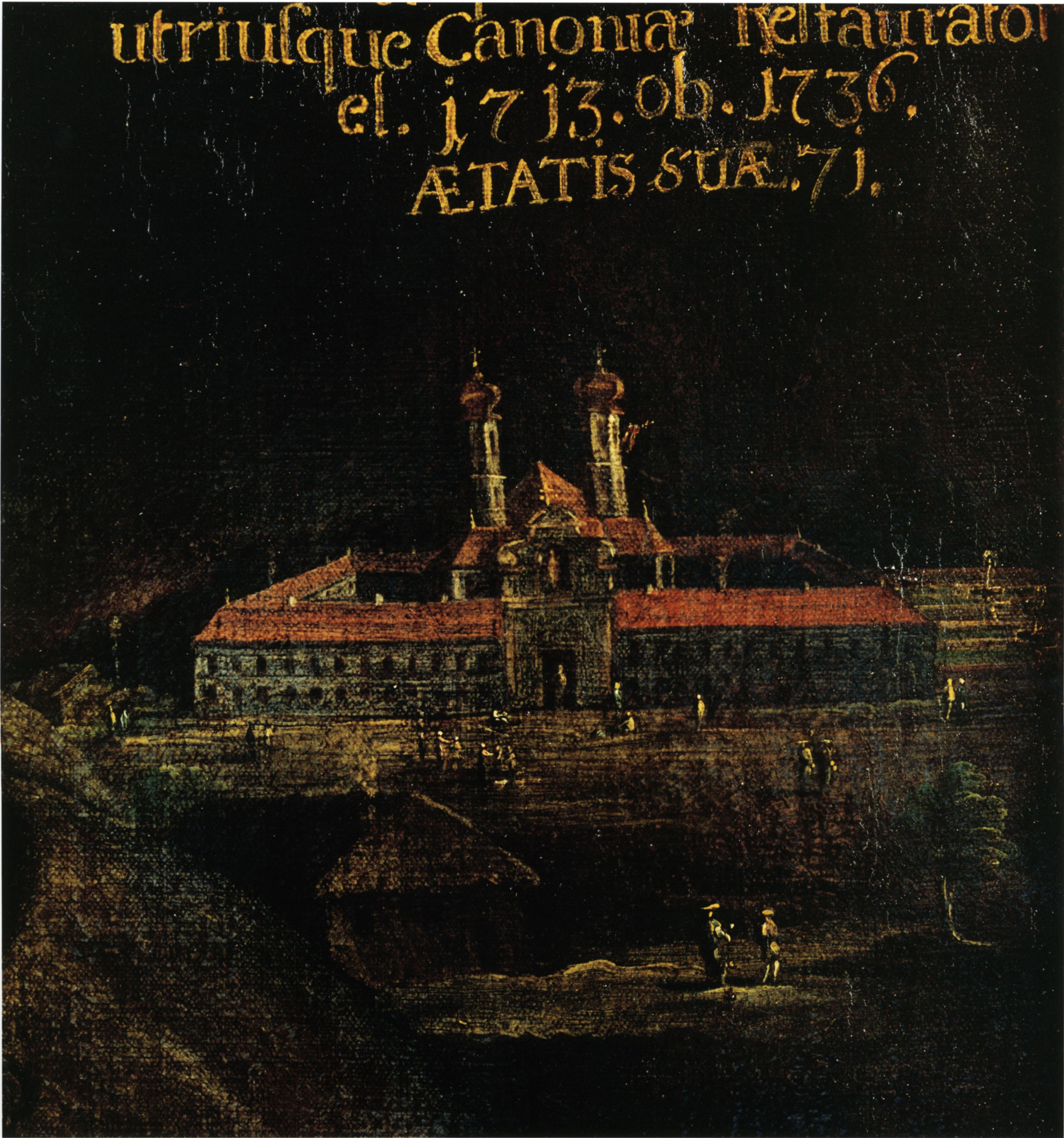 Detail of painting showing Andreas Dilger, abbot of monastery St. Märgen, Germany, 1736